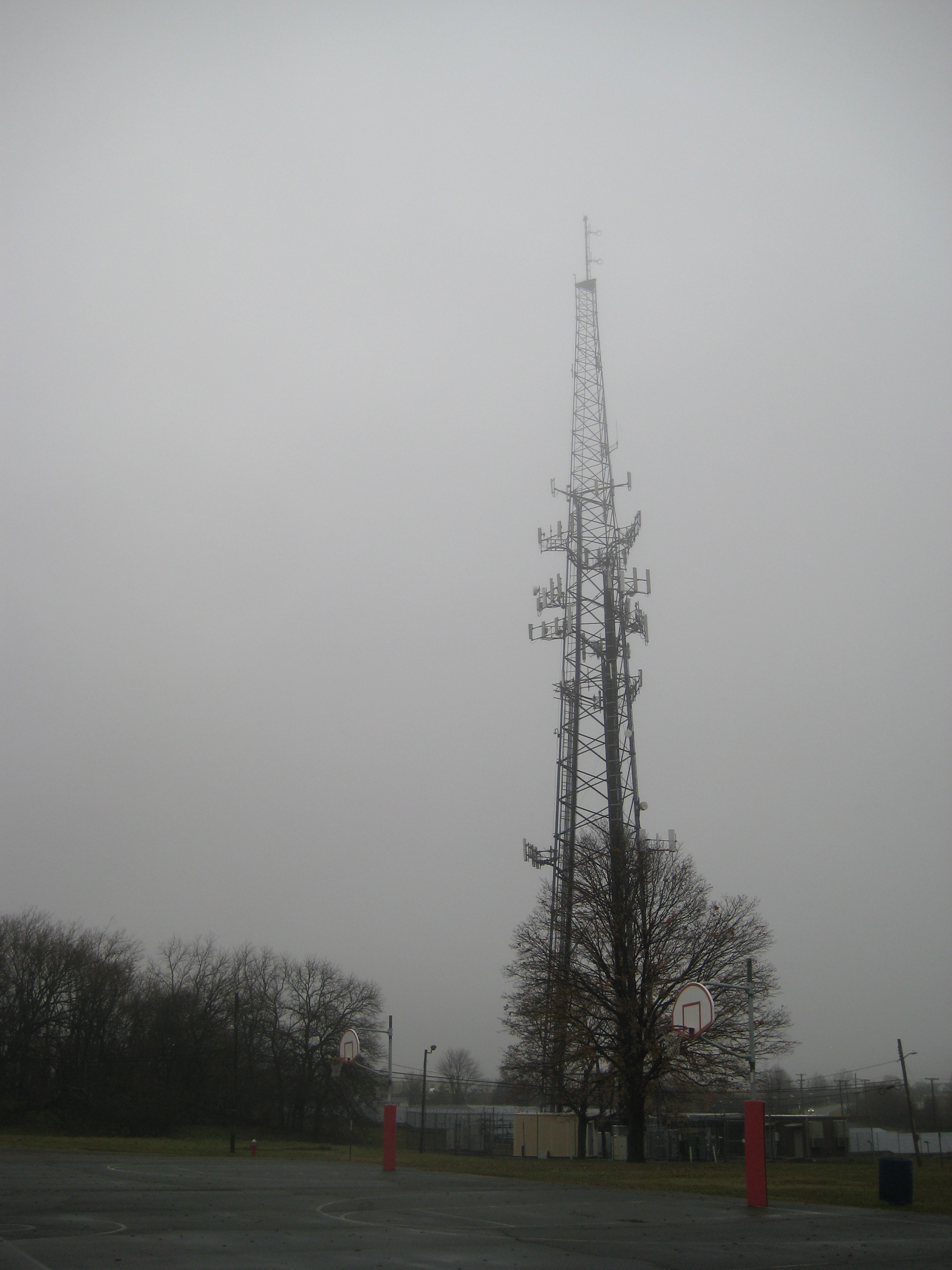 The radio tower carrying the broadcast for WVPH in Piscataway, NJ.